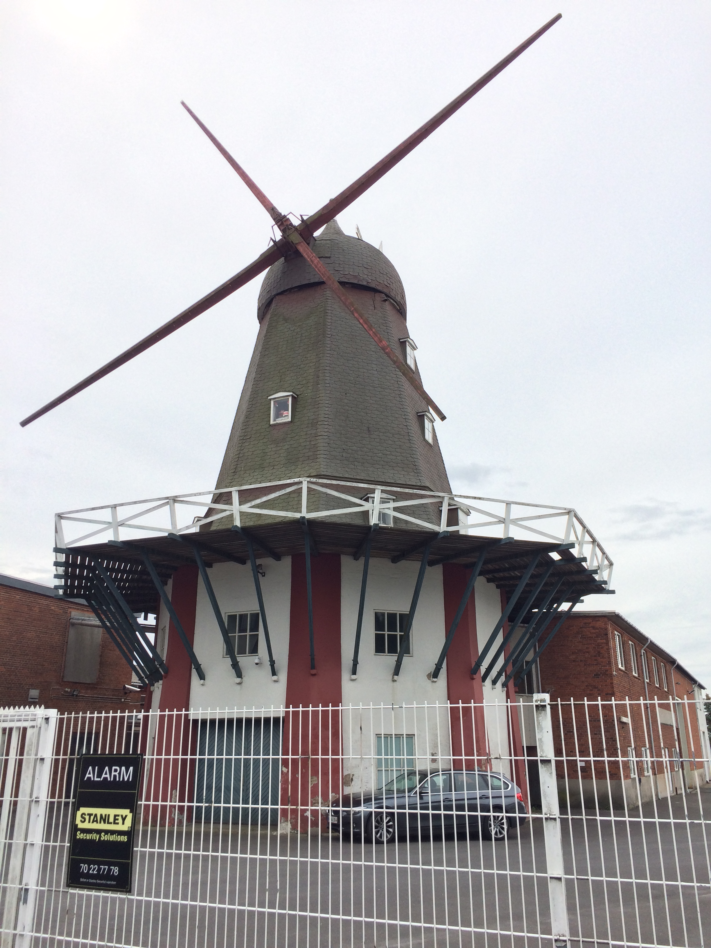 Røde Vejrmølle, a Dutch style windmill in Albertslund, Denmark